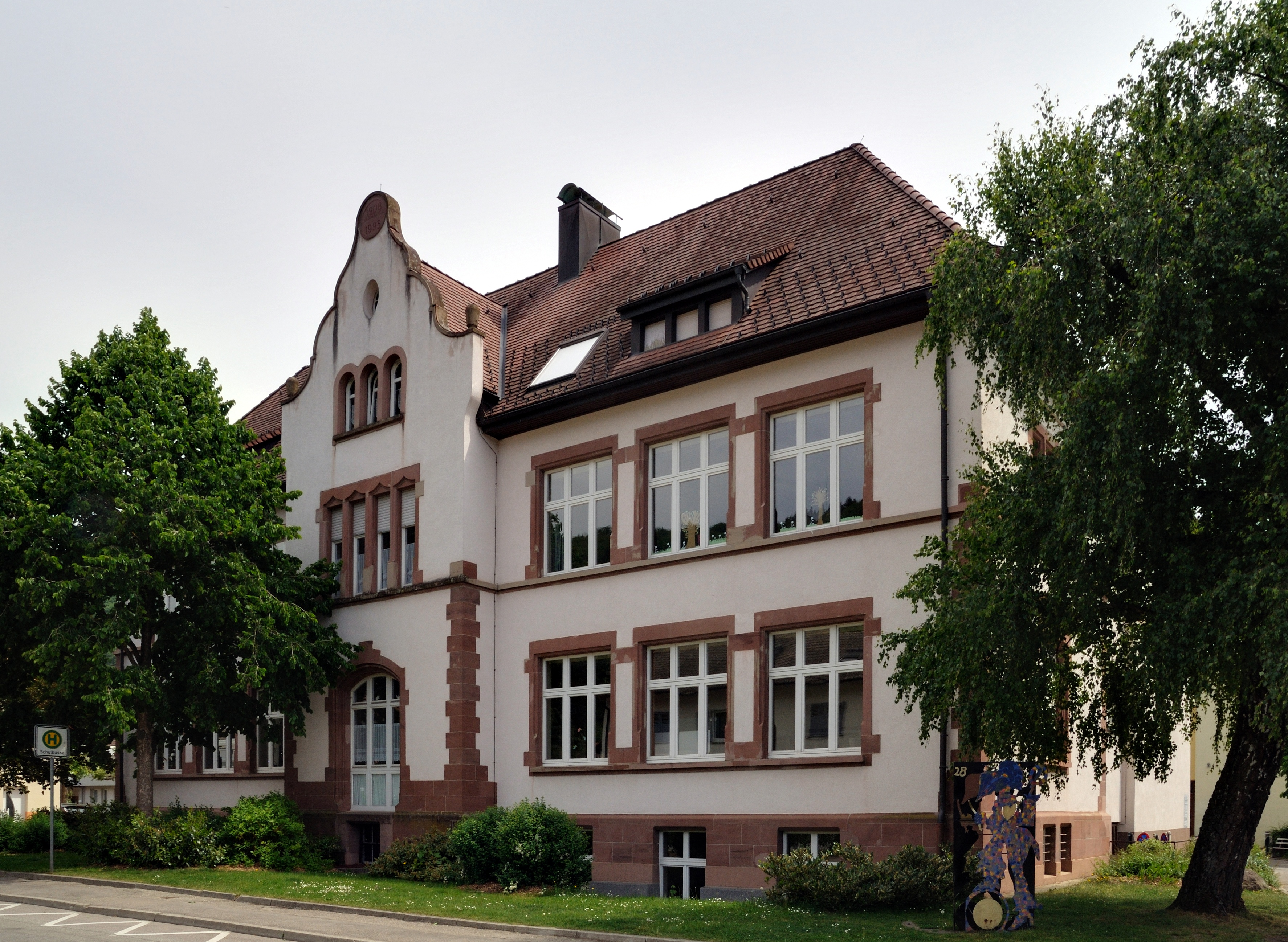 Hausen im Wiesental: school house